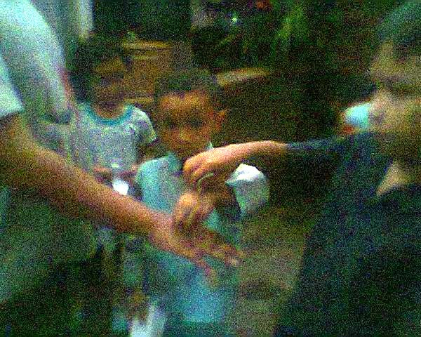 paciwit ciwit lutung